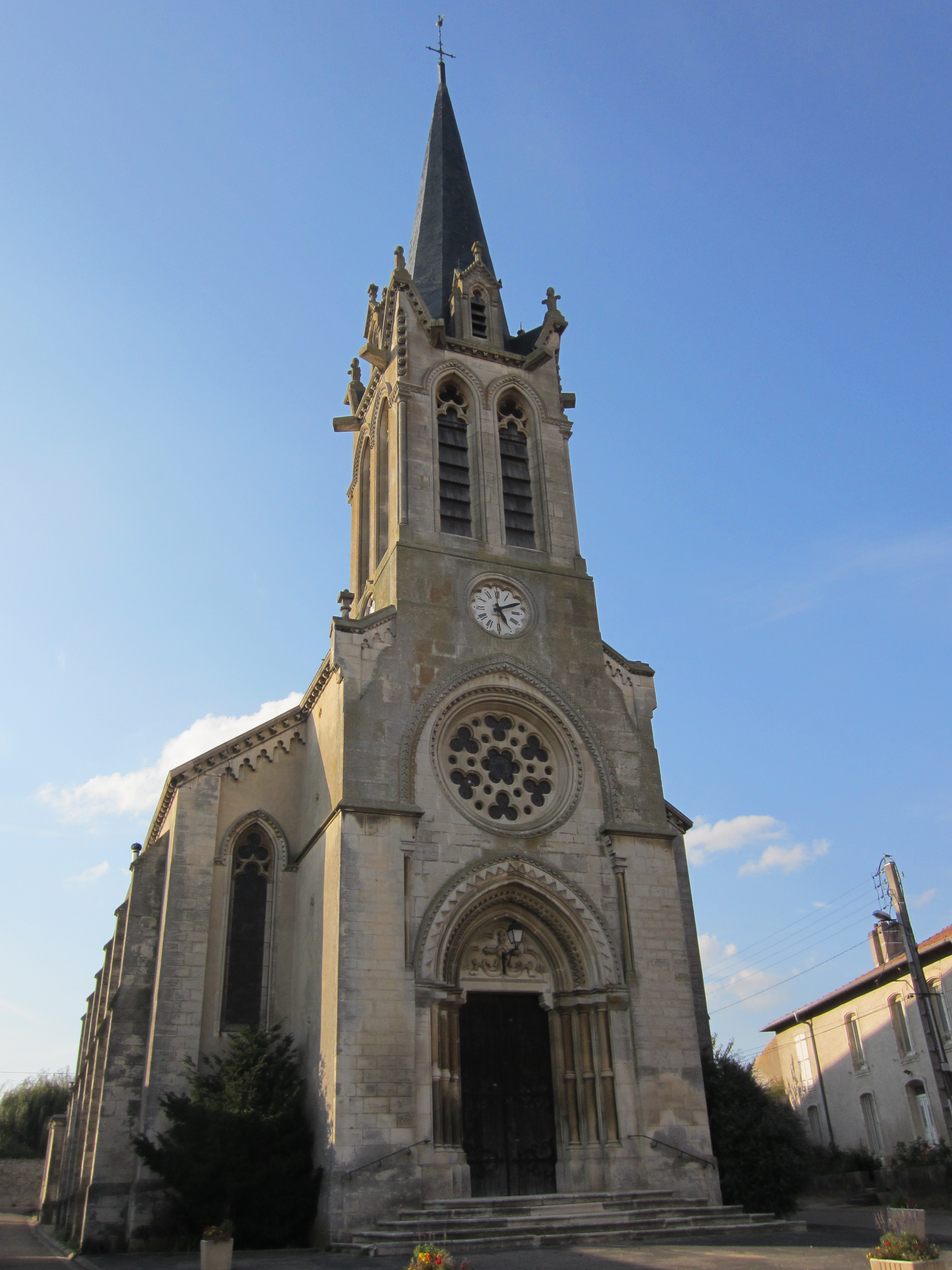 Description eglise Noviant Pres Date27 September 2011Sourcemon appareil photoAuthorAimelaimePermission (Reusing this file) eglise Noviant Pres